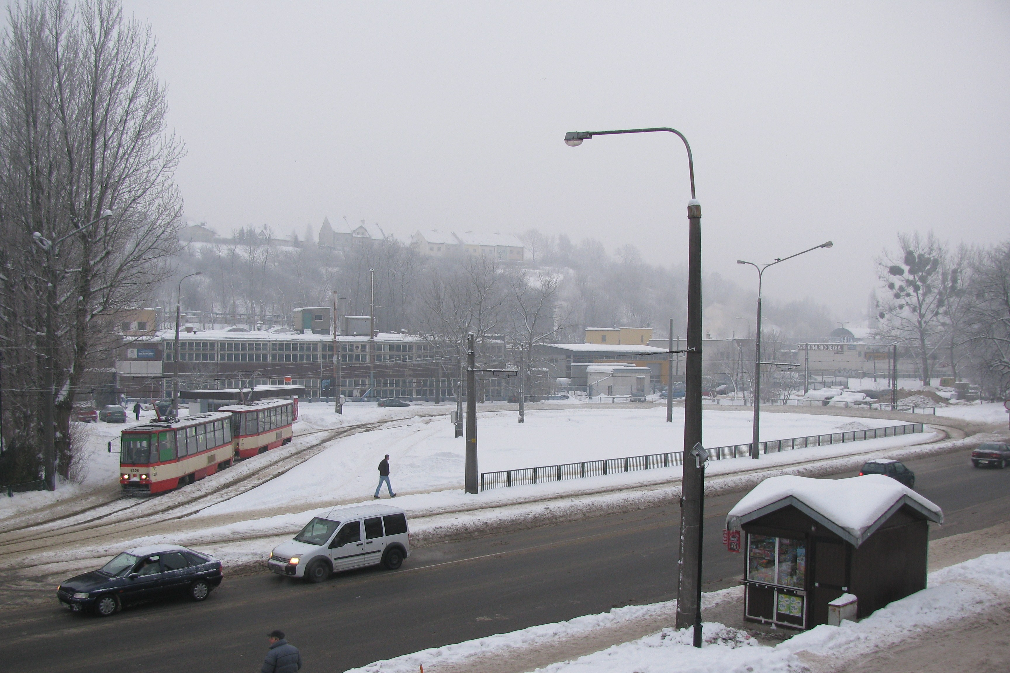 Tram track loop in Gdańsk-Siedlce, Kartuska Street - winter.